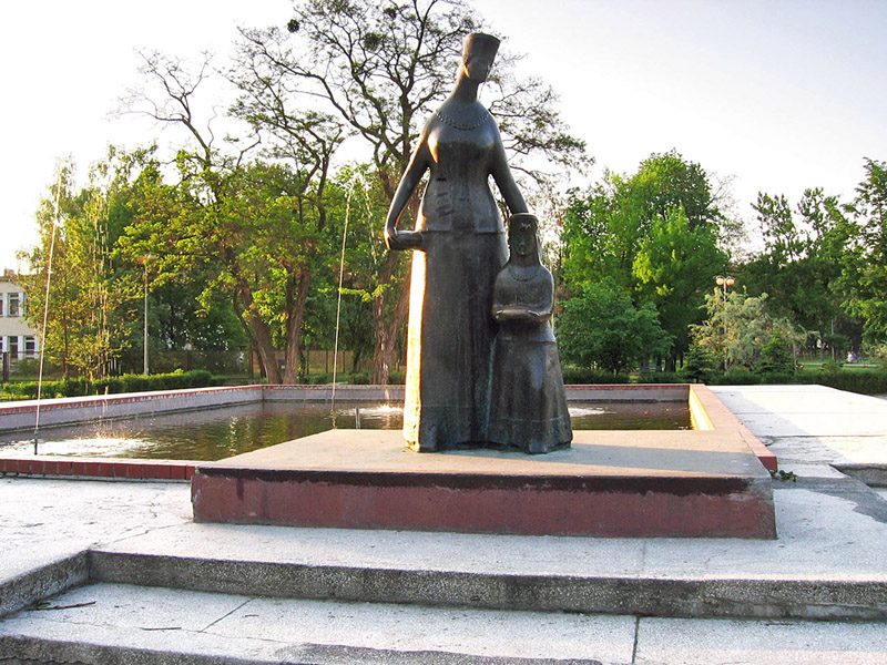 City of Ostroleka (Poland), a monument of Kurp women - one of the symbols of Ostroleka